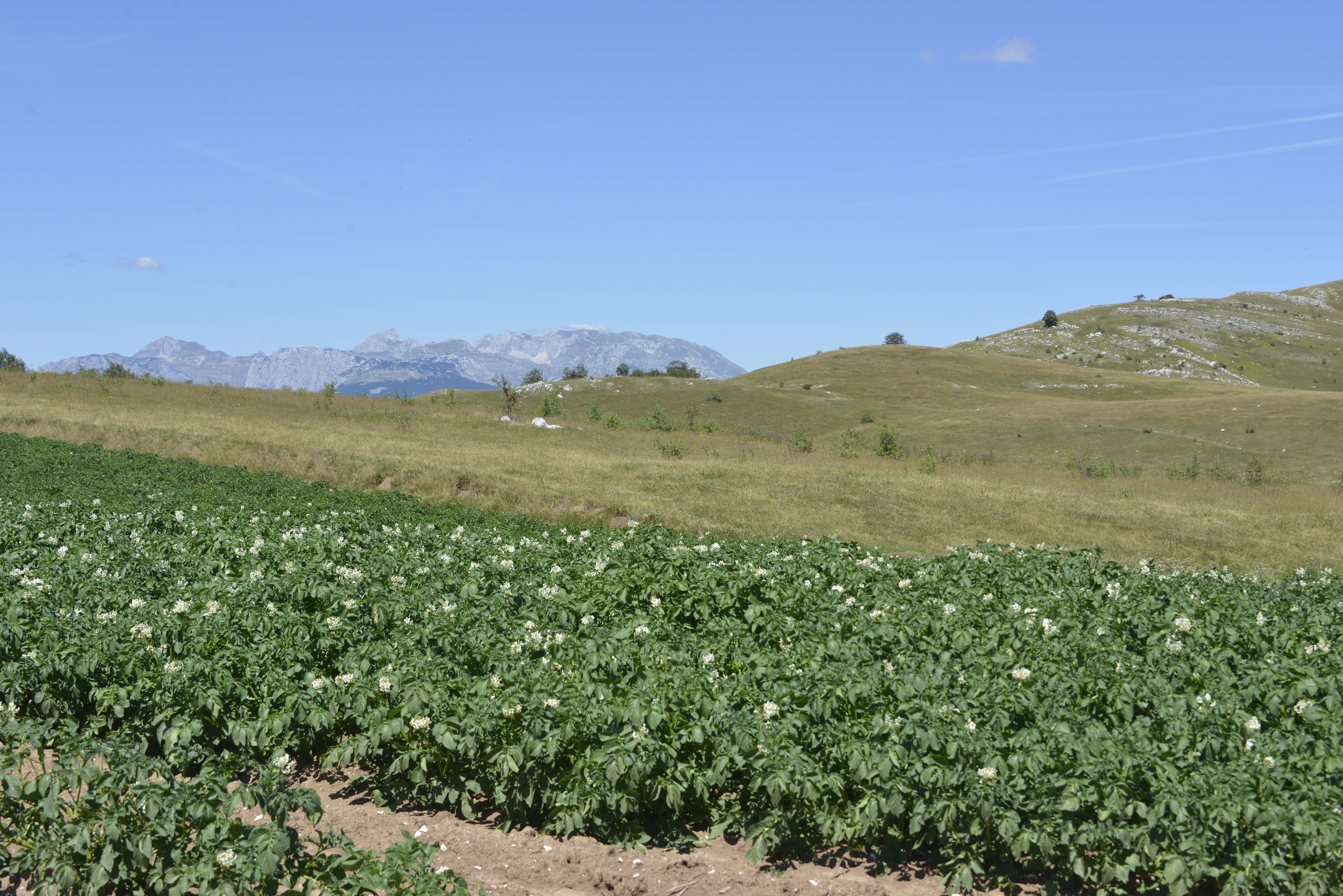 Krnovo Montenegro